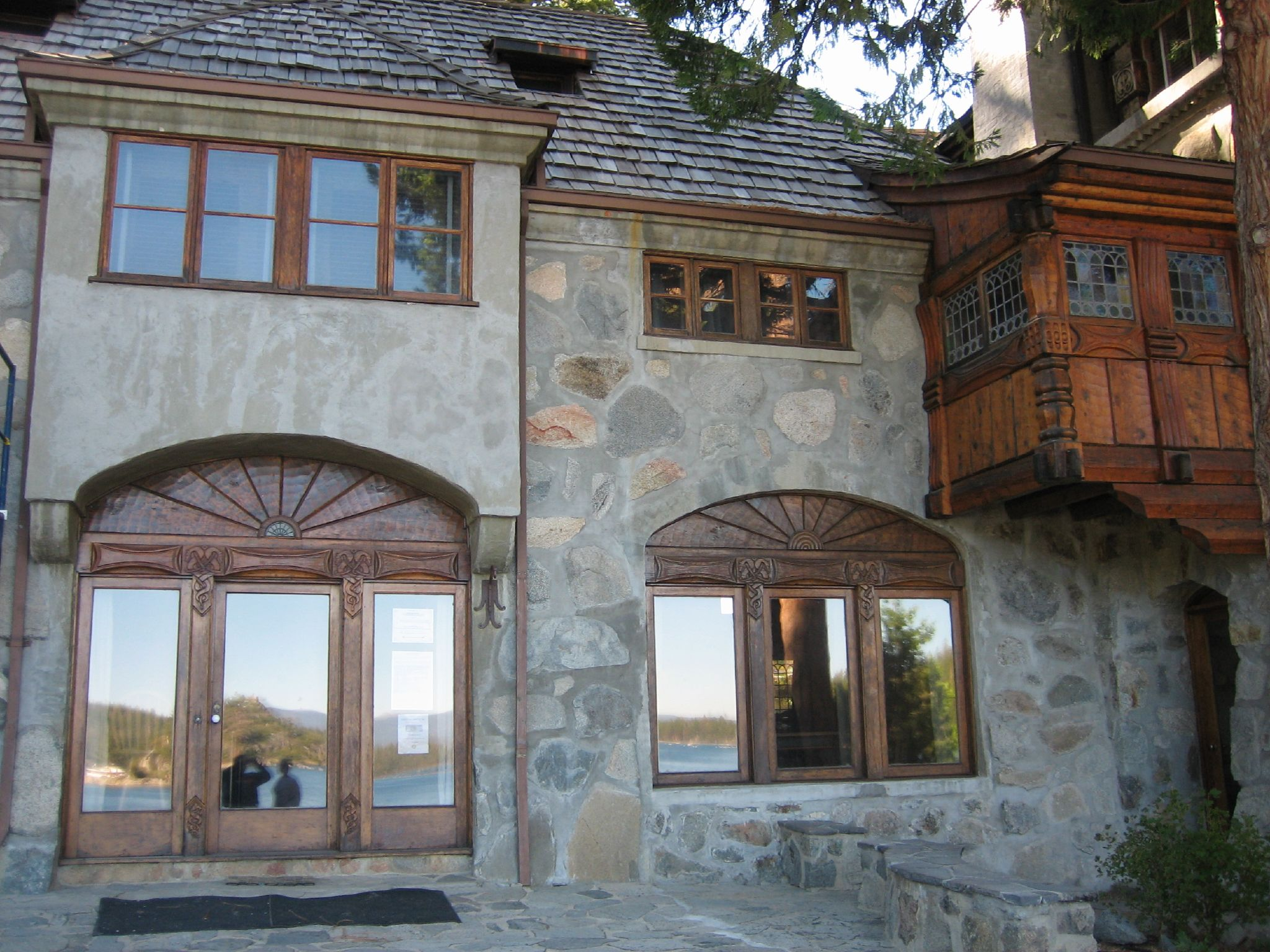 vista cercana